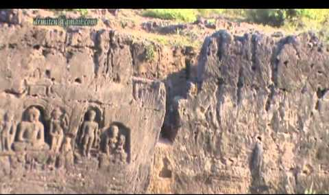 This is the Dhanks Caves